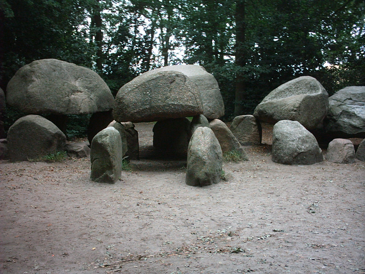 Entrance to the hunebed of Borger. August 2004.